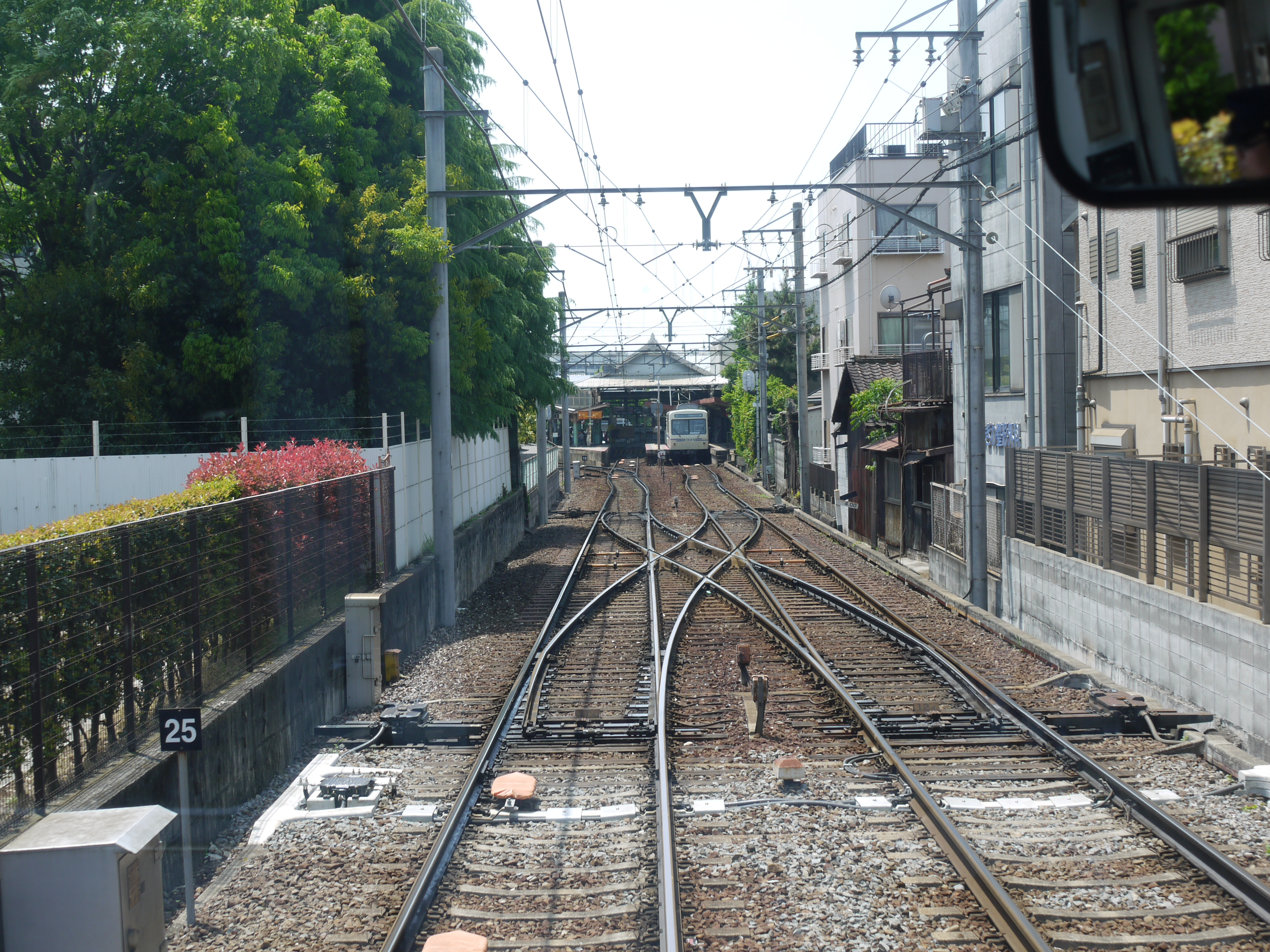 Layout of Eiden Demachi yanagi station